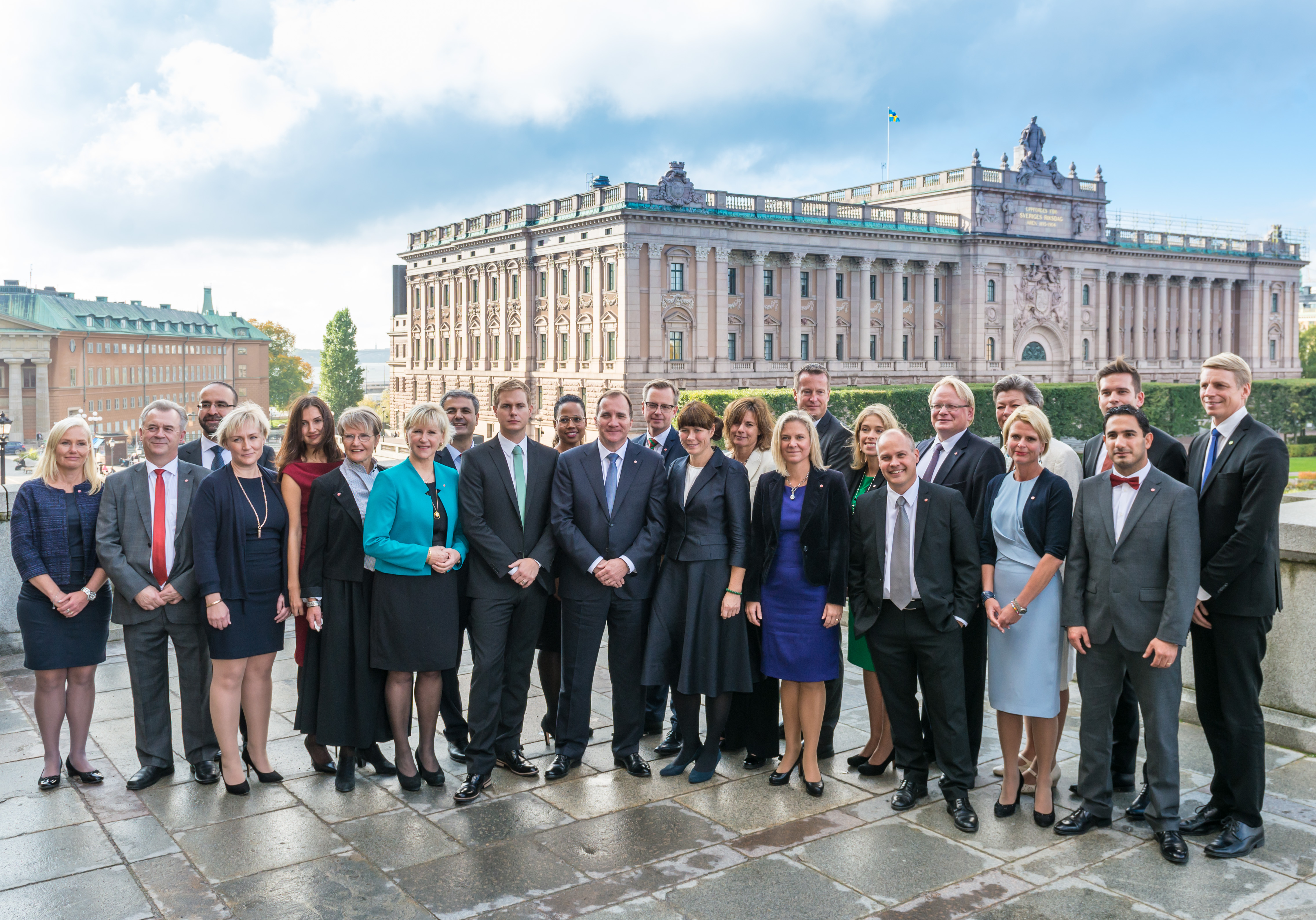 Swedish prime minister Stefan Löfven's new cabinet posing outside the Stockholm Royal Palace on October 3, 2014.